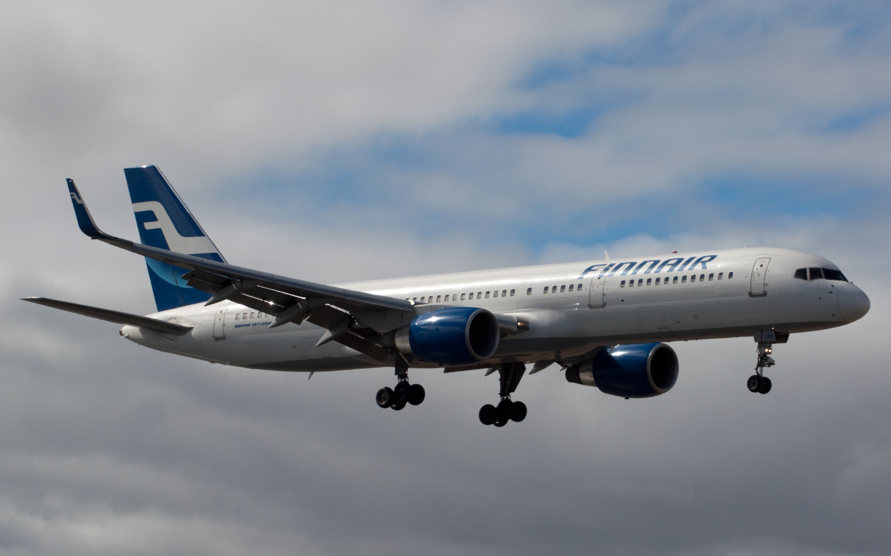 A Finnair Boeing 757-200 landing at Lanzarote Airport